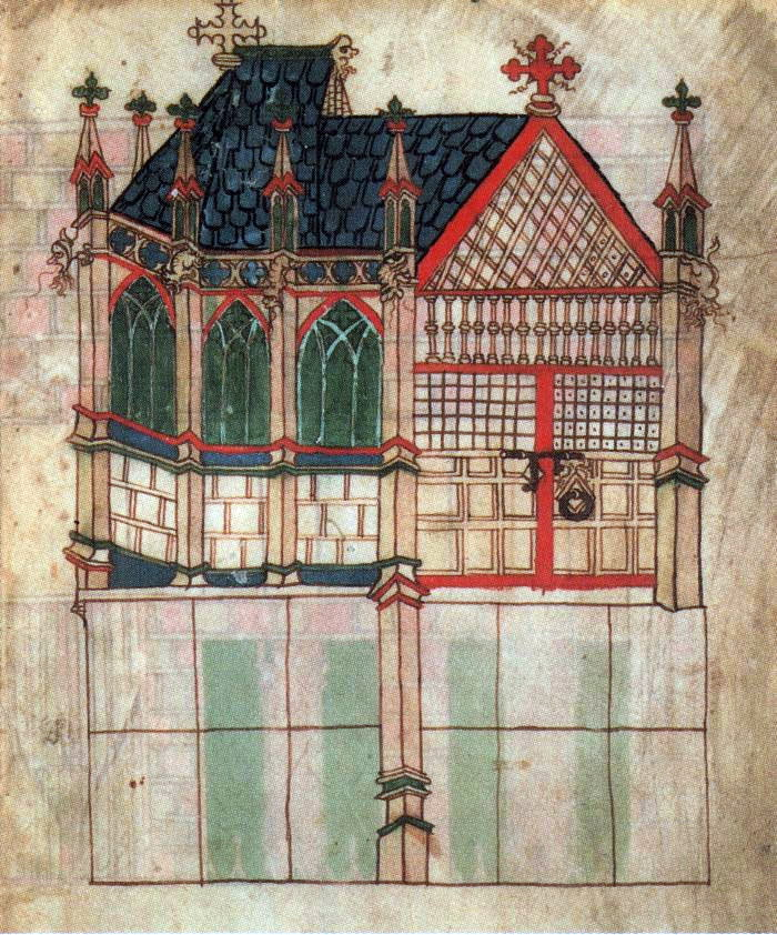 Construction plan for Koningskapel (Kings Chapel), Basilica of Saint Servatius, Maastricht, the Netherlands (ca 1461). Ink and tempera on parchment. The money for the chapel was donated by Louis XI of France, in commemoration of a miraculous healing that happened to a relative of his, the duke of Bavaria, after praying to Saint Servatius.